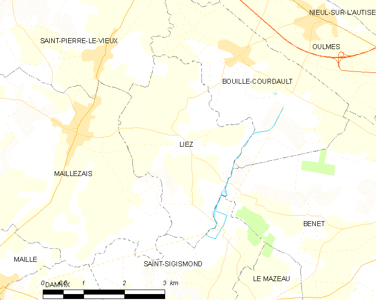 Map of French municipality Liez